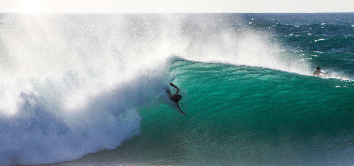 Bodysurfer Travis Overley no a wave at Pipeline. Shot by Rachel Newton-Joyce on October 28, 2013.